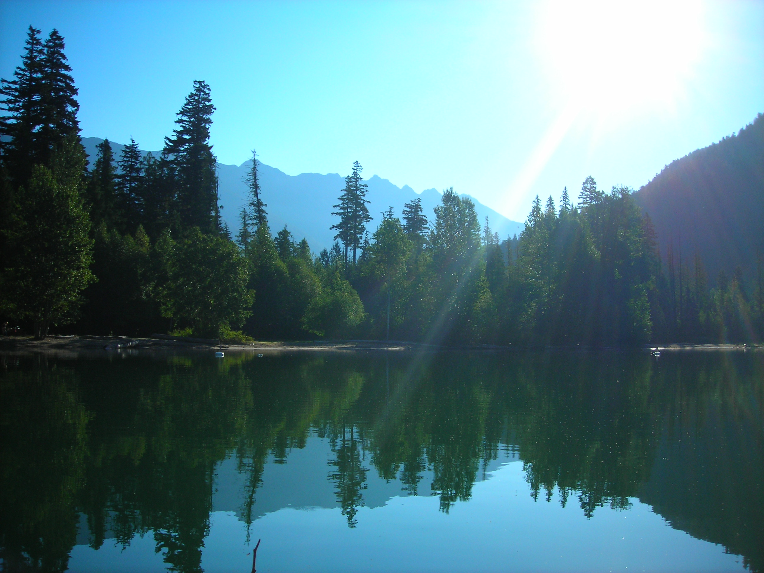 View of the Birkenhead Lake campgrounds area from the dock.